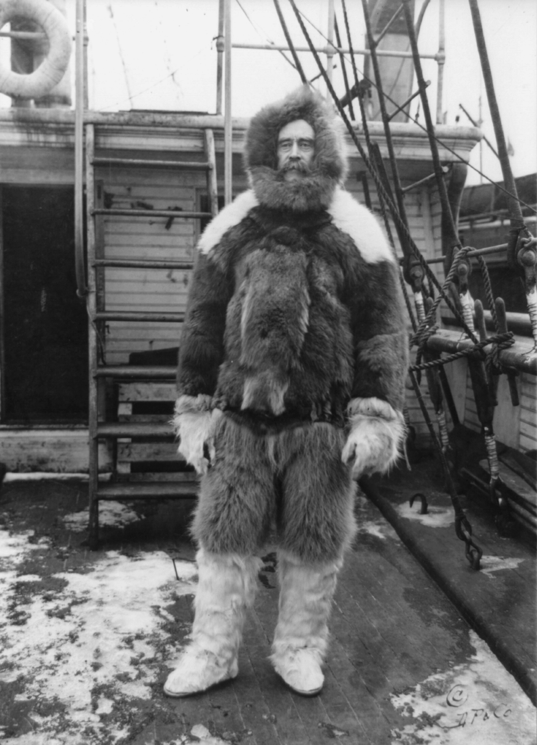 Robert Edwin Peary (1856 - 1920), polar explorer, on the main deck of steamship Roosevelt